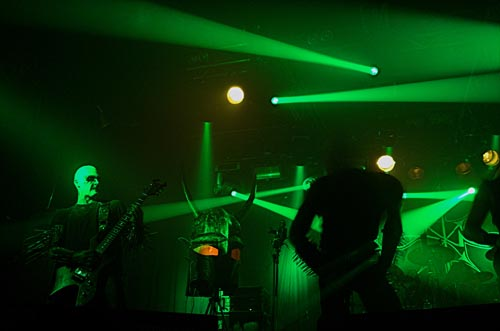 1349, live at Hole In The Sky, Bergen Metal Fest - 2006